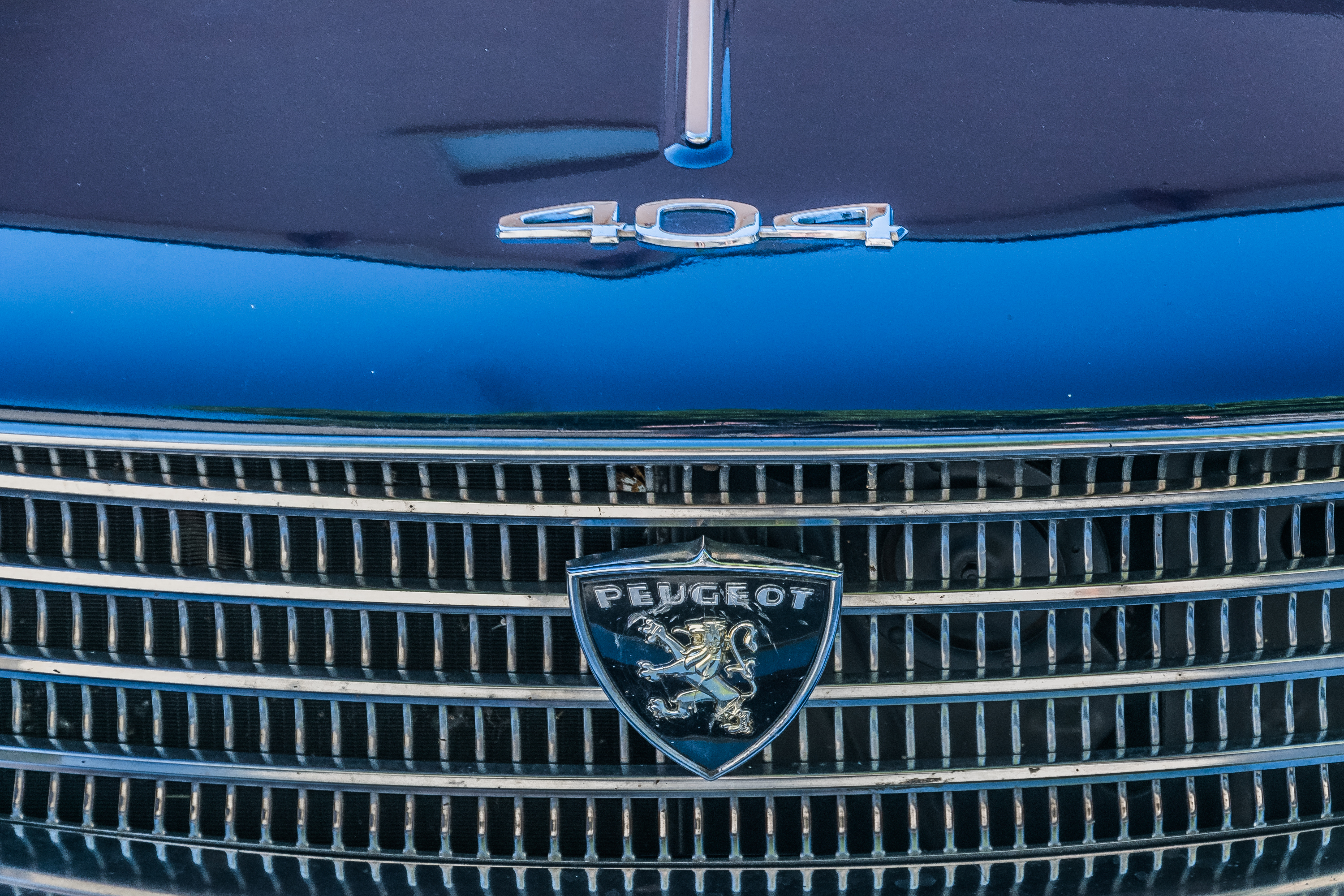 Peugeot 404 in Saint-Cyprien-sur-Dourdou, commune of Conques-en-Rouergue, Aveyron, France